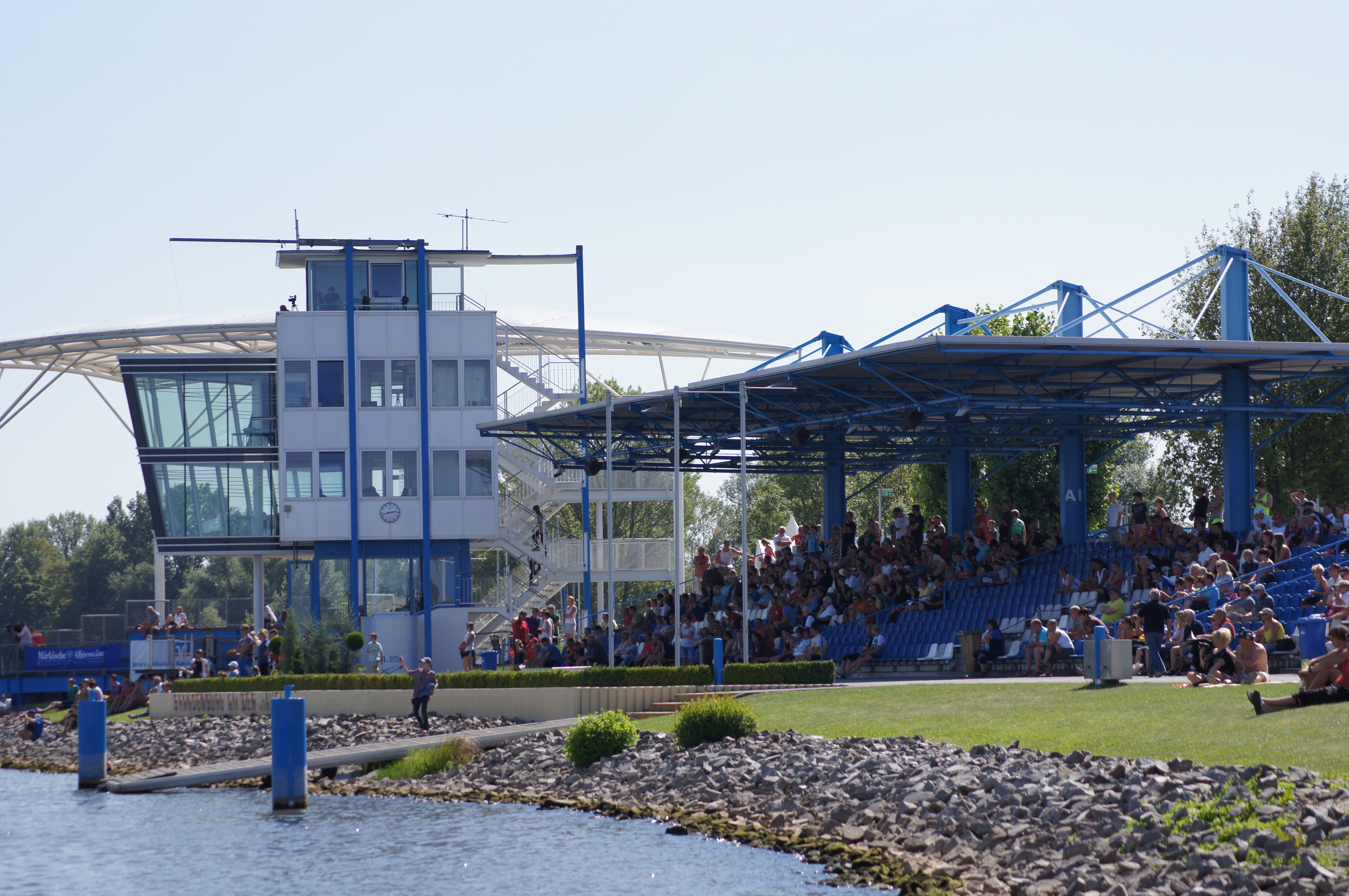 Canoe-Sprint Regatta Course Beetzsee in Brandenburg a.d. Havel